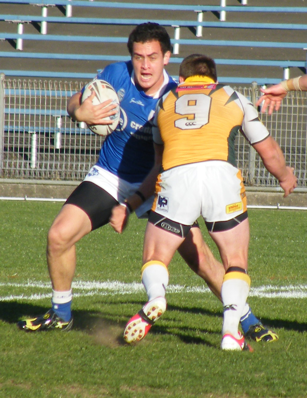 Brad Takairangi(left) of the Newtown Jets